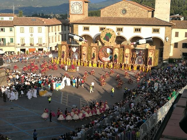 Festa dell'Uva, Rione Sant'Antonio, 2016.